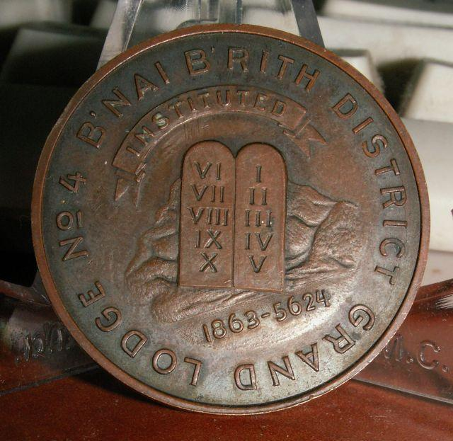 The Order of the B'nai B'rith district grand lodge #4